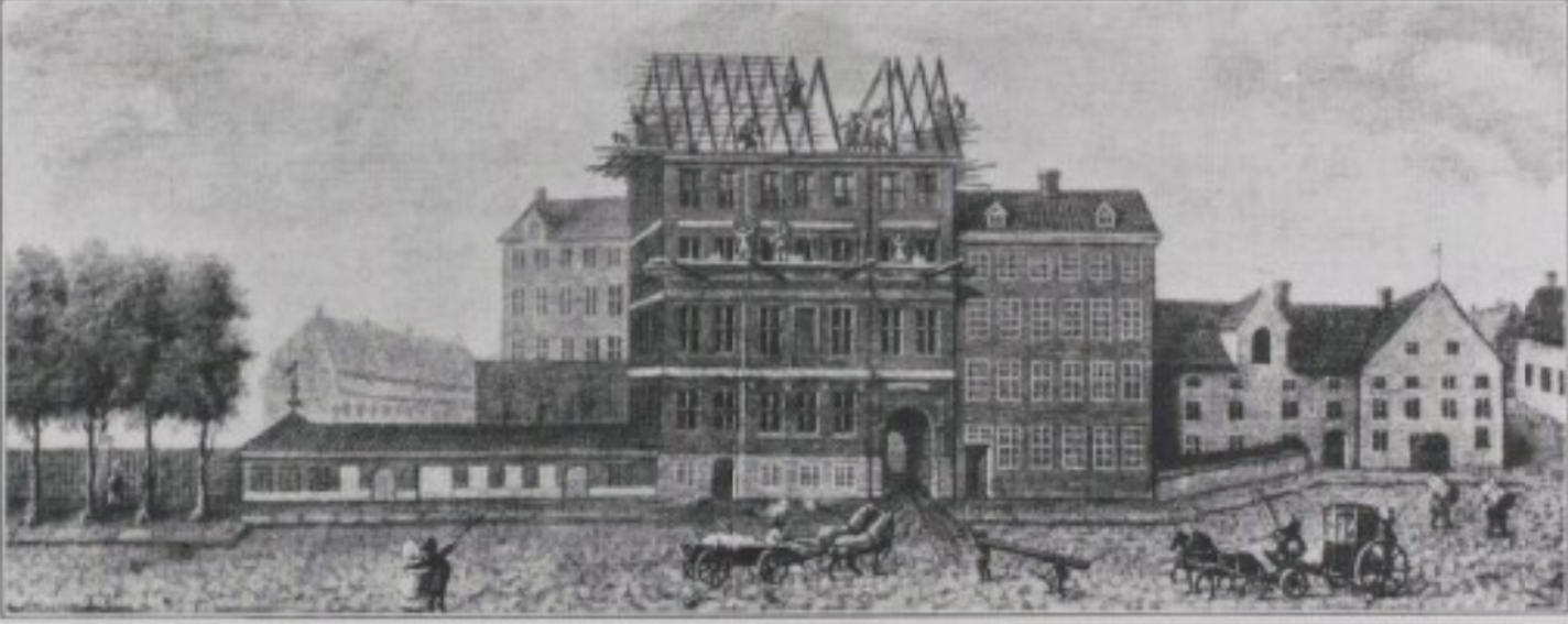 Toldbodvej og St. Kongensgade. 2. Halvdel af d. 18. Århundrede. Undervisningsinspektør Professor Tuxen